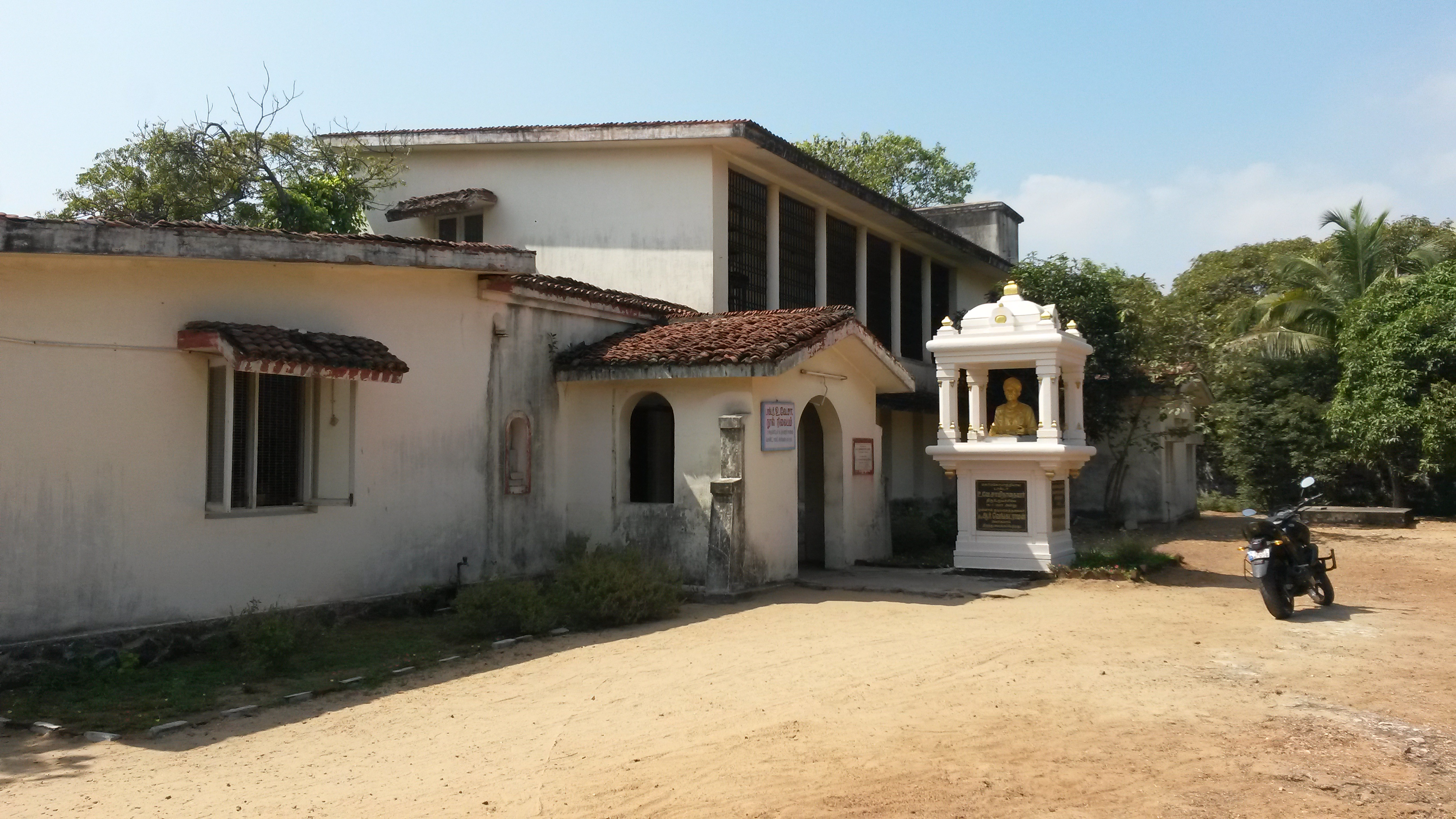 U. V. Swaminatha Iyer Library in Besant Nagar, Chennai